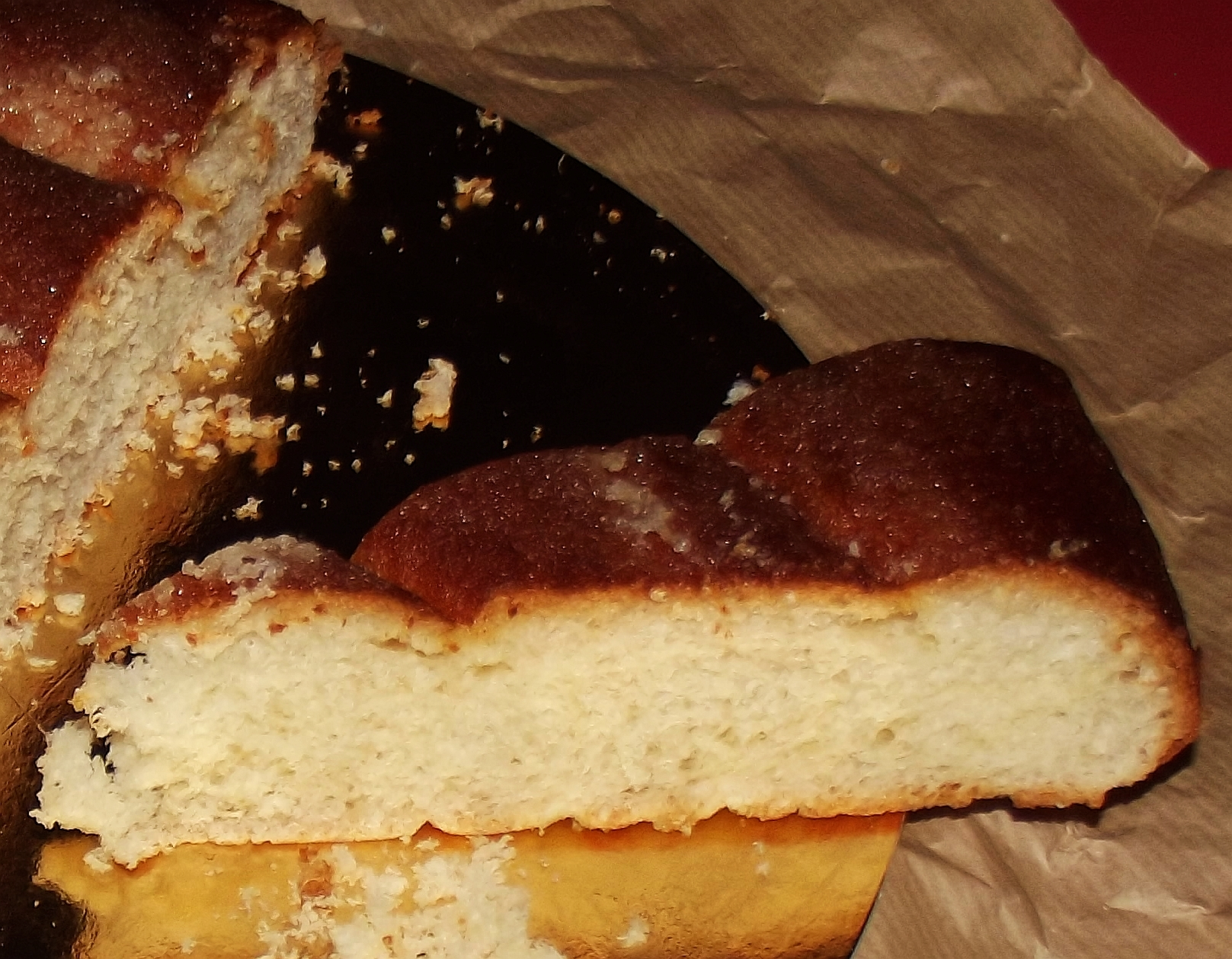 Focaccia di Susa, a traditional dessert from Susa (Piedmont - Italy)